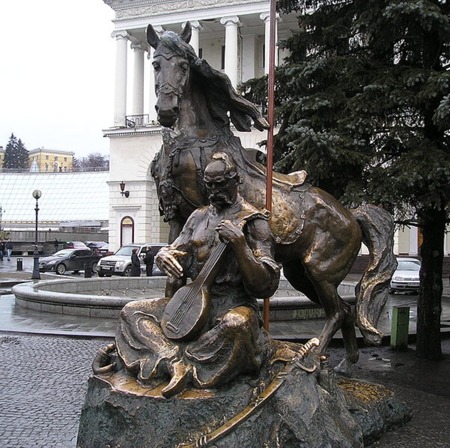 Cossack Mamay Monument at Maidan Nezalezhnosti in Kyiv created by son and father Mykola and Valentyn Znoba (14 October, 2001). Changed dimensions from the original pic. (see below).